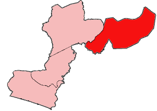 Map of Margibi County, Liberia showing Gibi District; created with the GIMP. Made by User:Acntx.